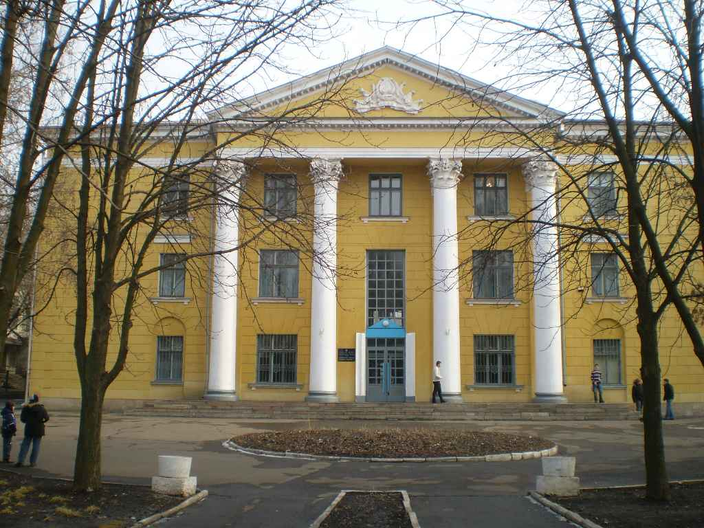 music college in Kryvy Rih